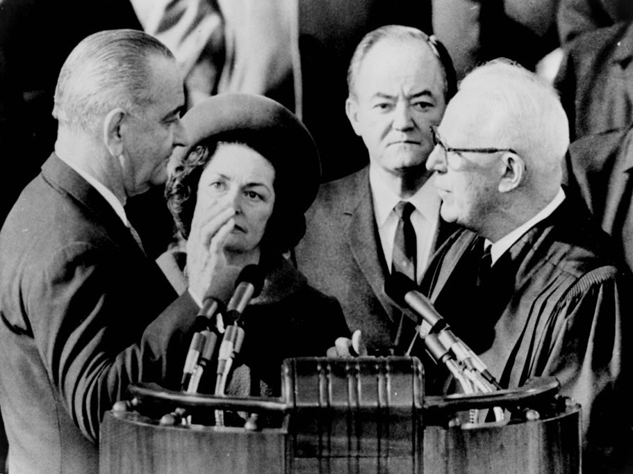 United States Supreme Court Chief Justice Earl Warren (right), alongside Vice President Hubert H. Humphrey and First Lady Lady Bird Johnson, during the swearing in of President Lyndon Baines Johnson (right) in Washington D.C.